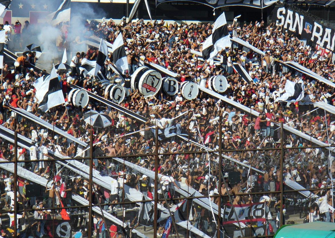 Garra Blanca, the official supporters group of Colo-Colo